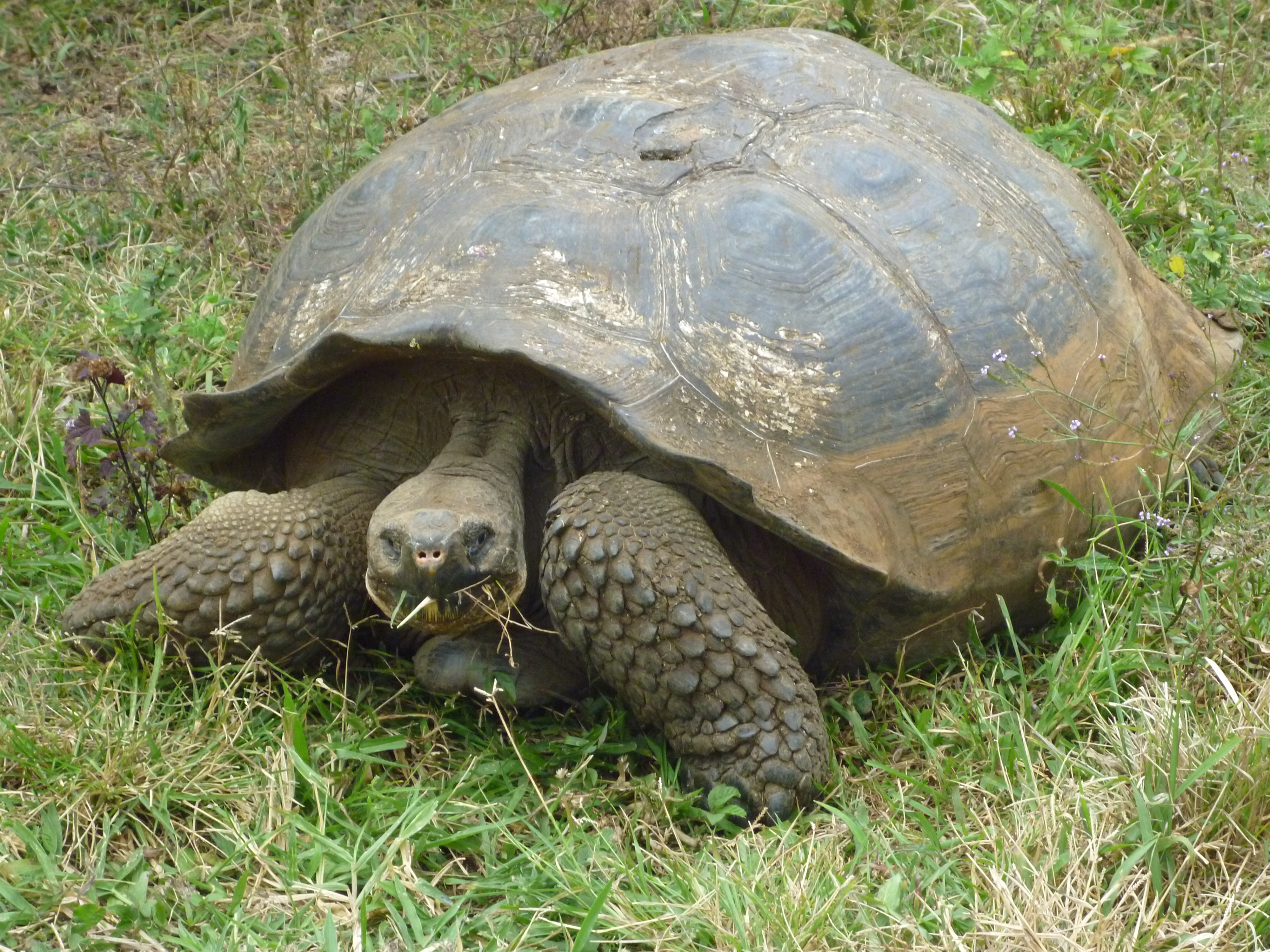 Photo taken on the Island of Santa Cruz in the Galapagos by David Adam Kess of the world famous Chelonoidis nigra - Gigantic Tortuga